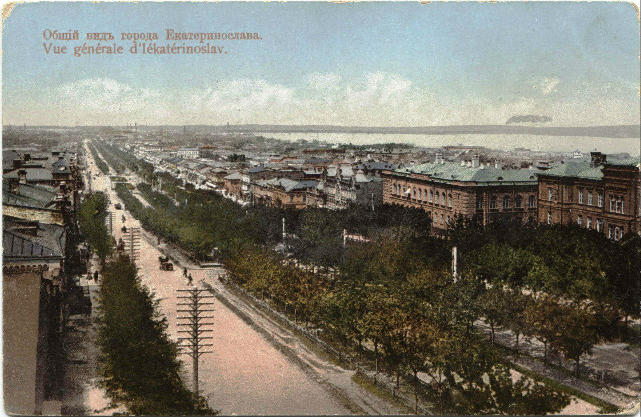 Фото начала 20 века.